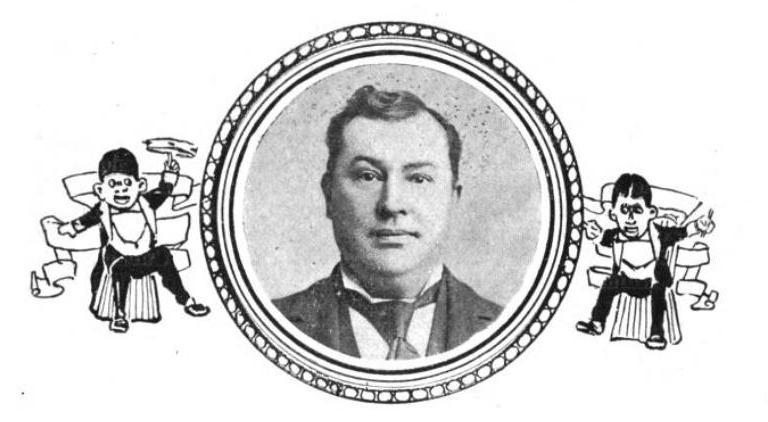 Photo of Frank Dumont as it appears in The Witmark amateur minstrel guide and burnt cork encyclopedia, published 1899.